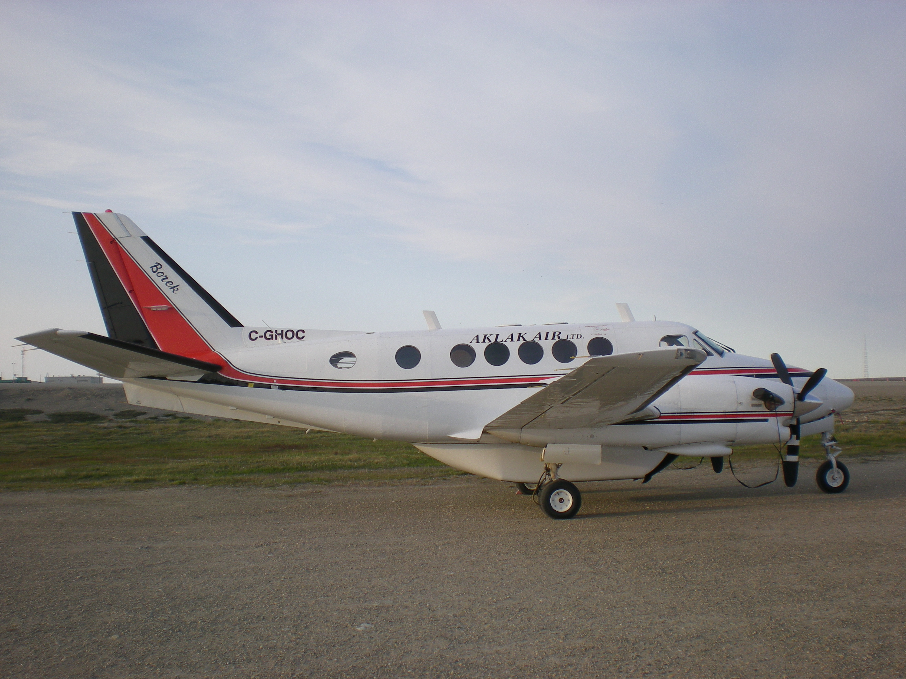 A Kenn Borek owned BE100 King Air in Aklak Air colours at the DEW line hangar, Cambridge Bay.